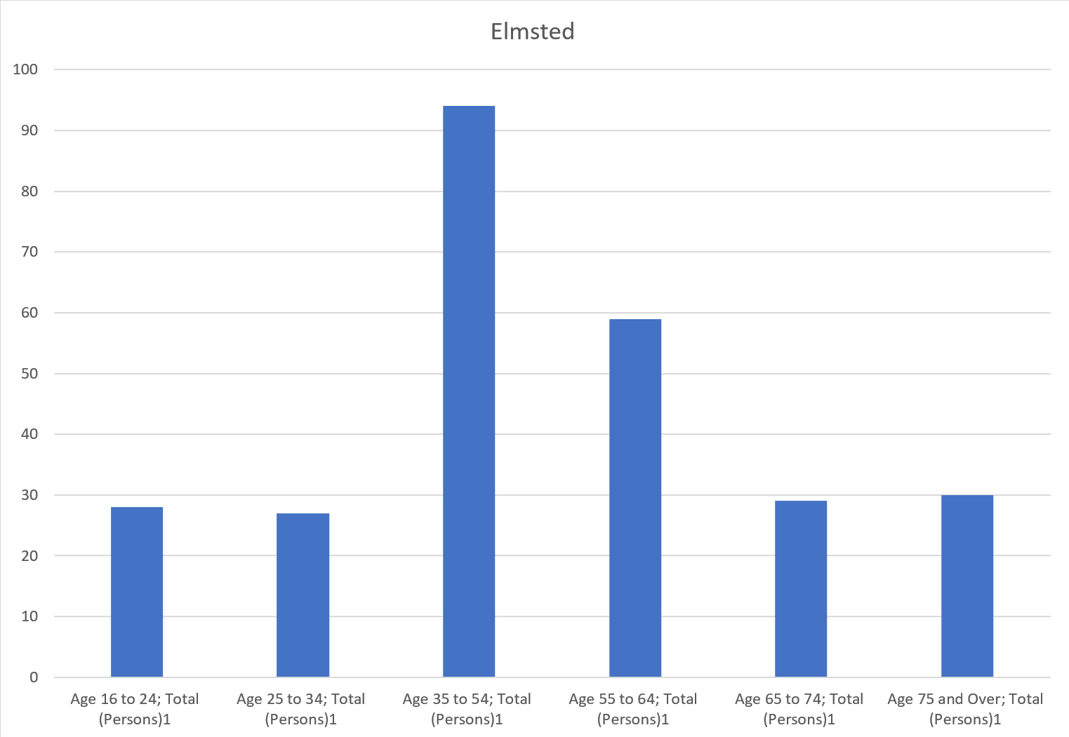 A table displaying the age groups of residents of Elmsted.